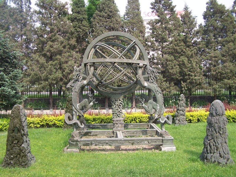 Beijing Ancient Observatory, replica of Ming Dynasty's Armillary in the garden